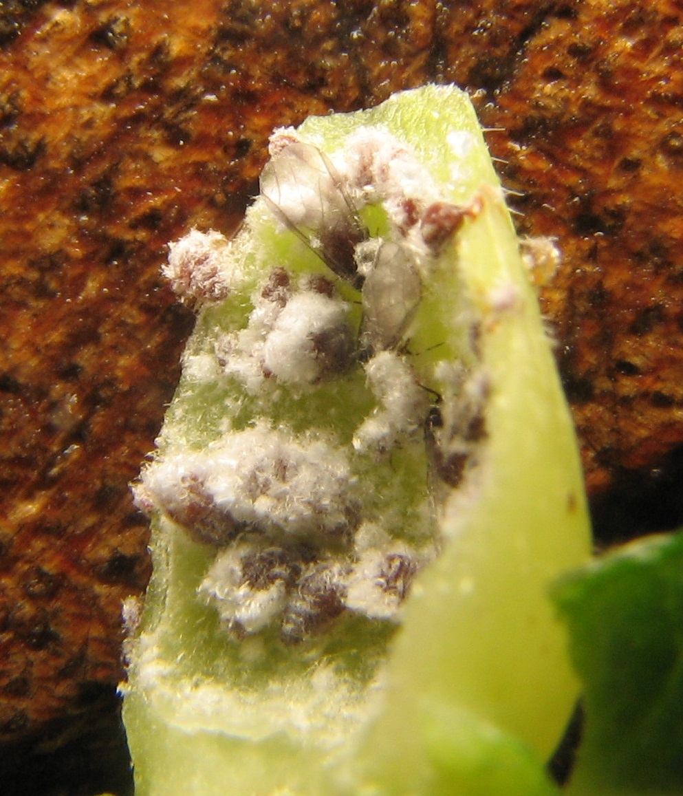 Cut open gall of Hormaphis hamamelidis (witch hazel cone gall aphid) on witch hazel, Hamamelis virginiana. Churchville Nature Center, Bucks County, Pennsylvania, USA. 40.1860° N, 74.9929° W.